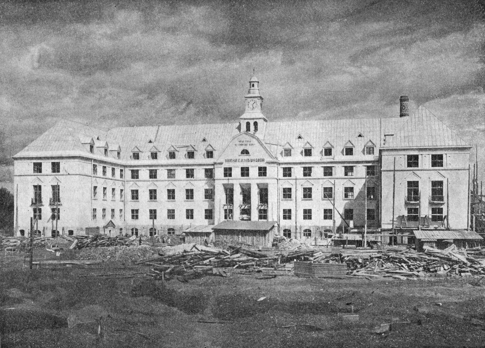 House of charity after name of E. I. Meshkova in 1915